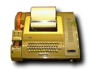 ASR 33 Teletype. A computer terminal manufactured and used between about 1965 to 1976.